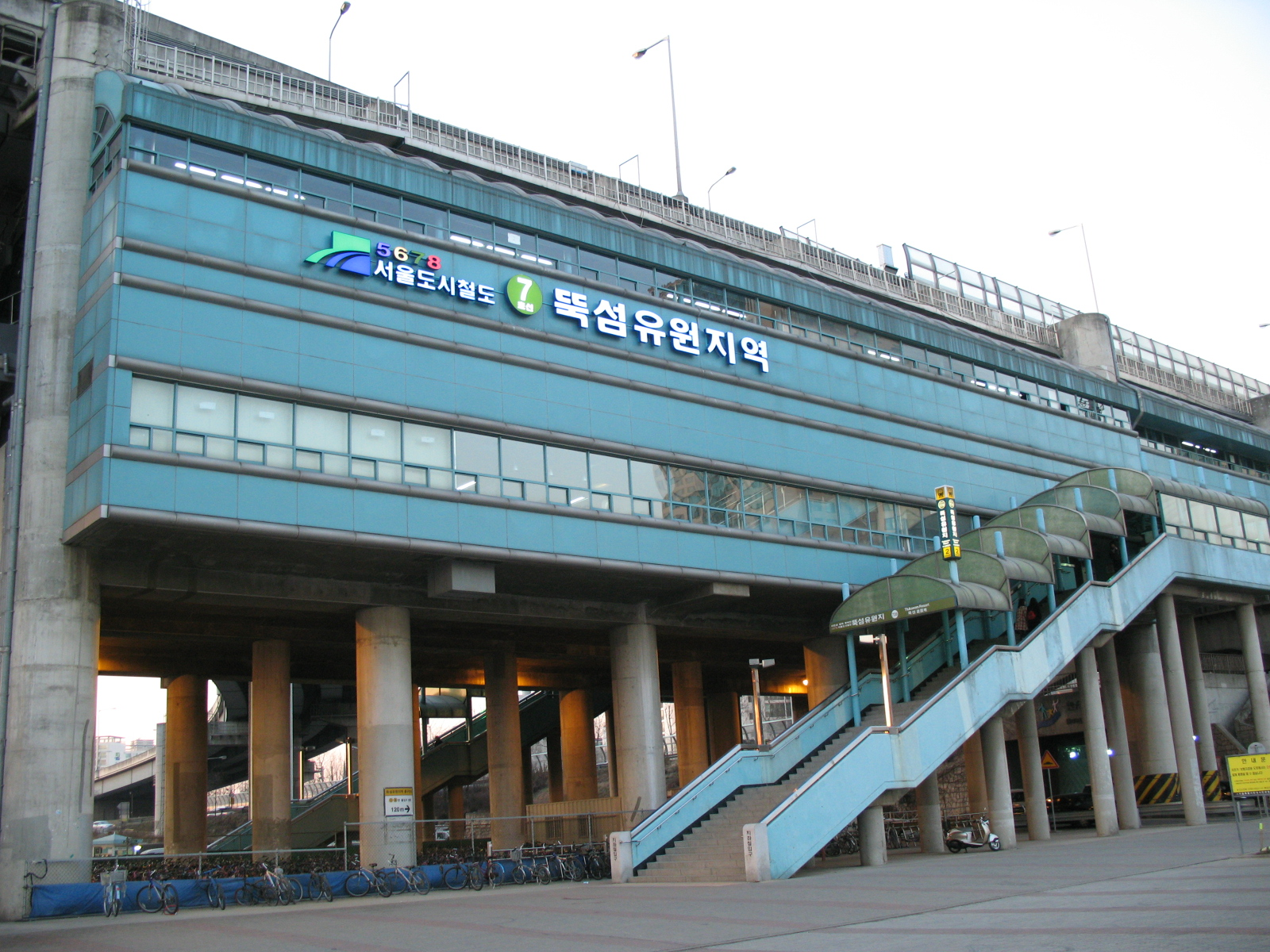 Ttukseom Resort Station.